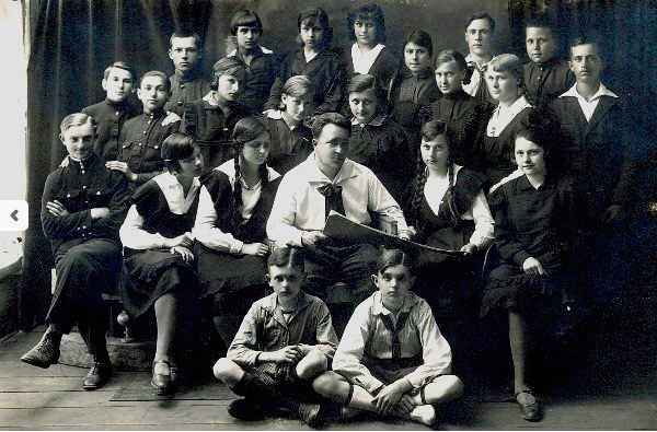 Georgi Kosmiadi with his students, 1930s